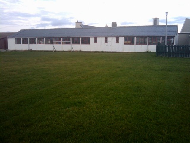 HORSA block, Baltasound Junior High School HORSA stands for Huts On Raising School-leaving Age and these were temporary building erected in 1948 to extend the school when the school-leaving age was raised to 16 after WW2. The buildings were so temporary they were still used for classes until 1995, and are still used for storage over half a century later.